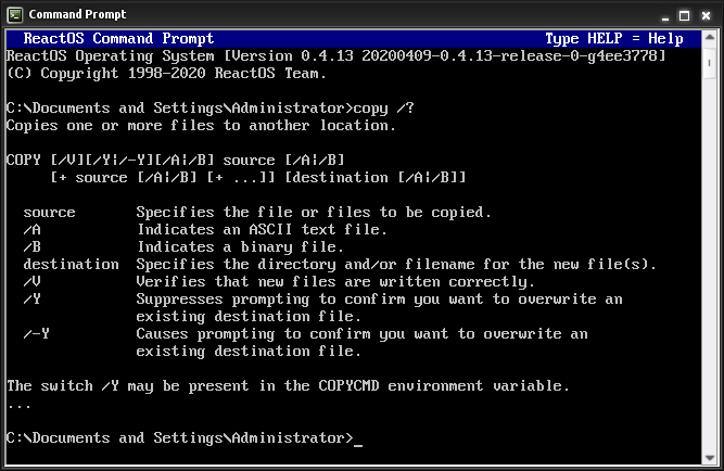 copy command on ReactOS-0.4.13